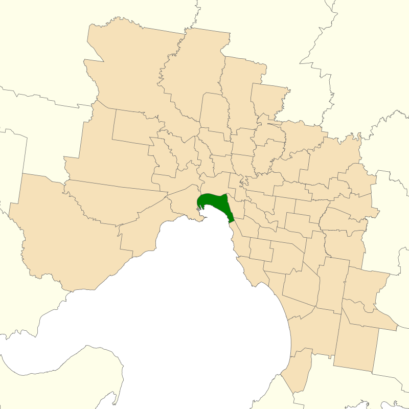 Location of the Victorian electoral district of Albert Park (dark green) in the Greater Melbourne area.